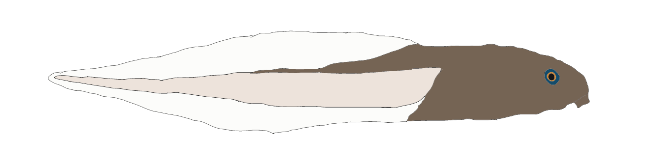 A illustration of tadpole of Boana punctata.